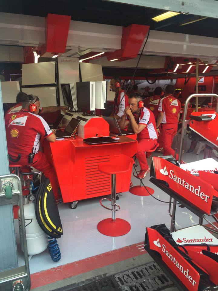 Ferrari box